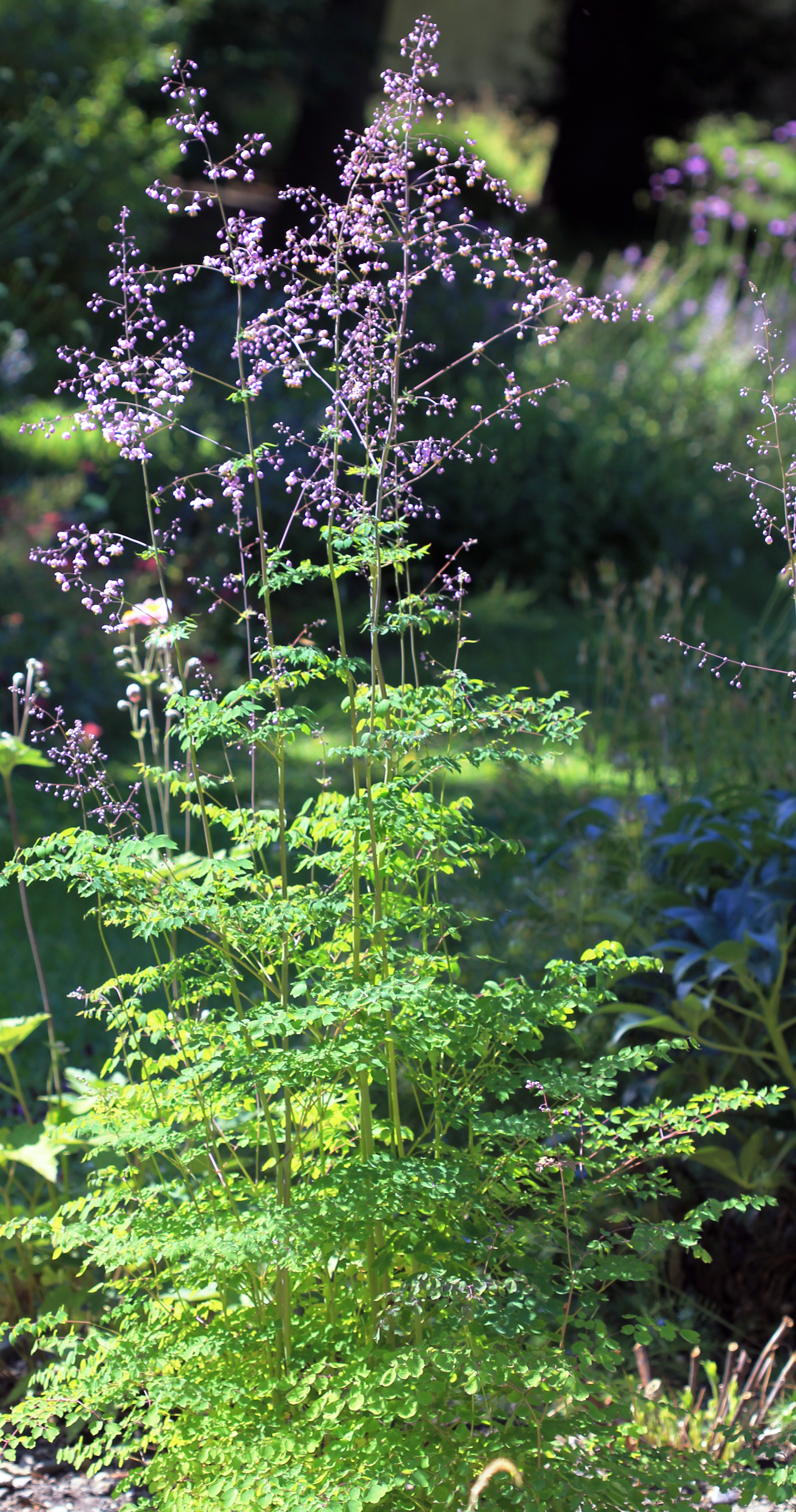 Plant Thalictrum delavayi or Thalictrum dipterocarpum, whole plants from the Botanical Gardens of Charles University, Prague, Czech Republic